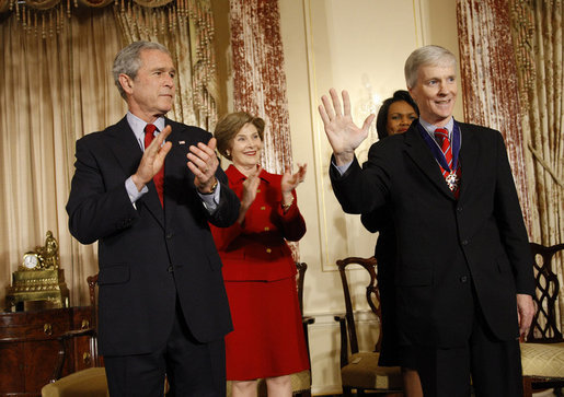 President George W. Bush and Mrs. Laura Bush applaud as U.S. Ambassador to Iraq Ryan Crocker acknowledges the audience after receiving the Presidential Medal of Freedom Thursday, Jan. 15, 2009, during a ceremony to commemorate foreign policy achievements at the U.S. Department of State.